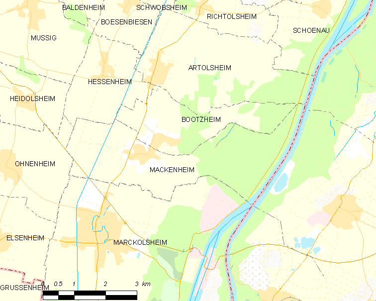 Map of French municipality